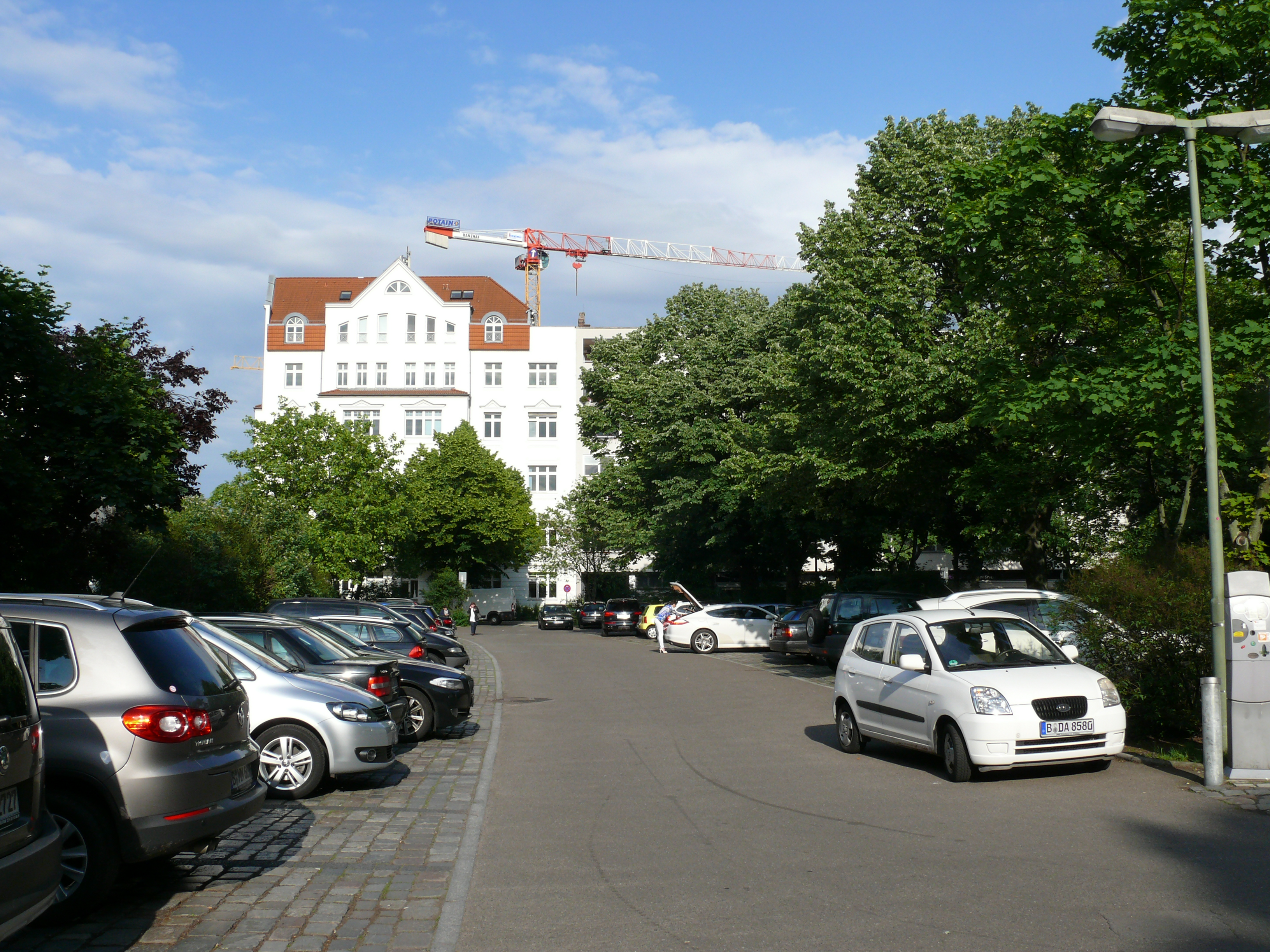 Berlin-Charlottenburg Olivaer Platz